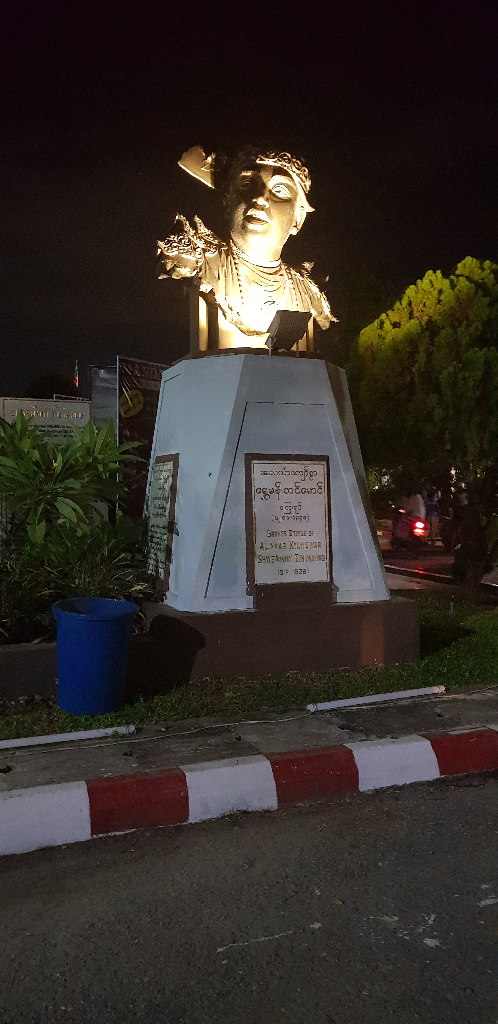 Statute of Shwe Man Tin Maung in Mandalay National Theatre